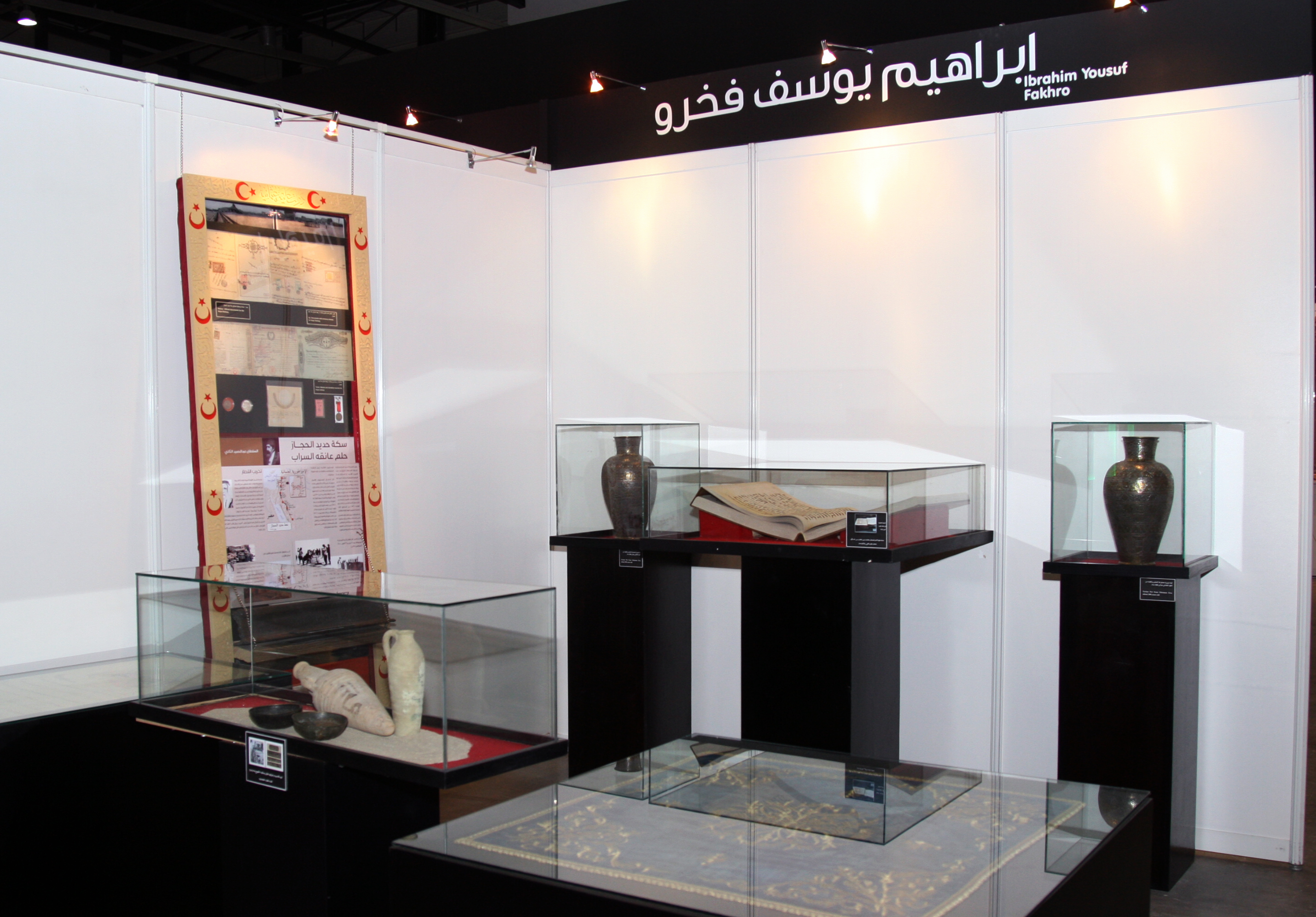 جناح إبراهيم الفخرو في معرض مال لول